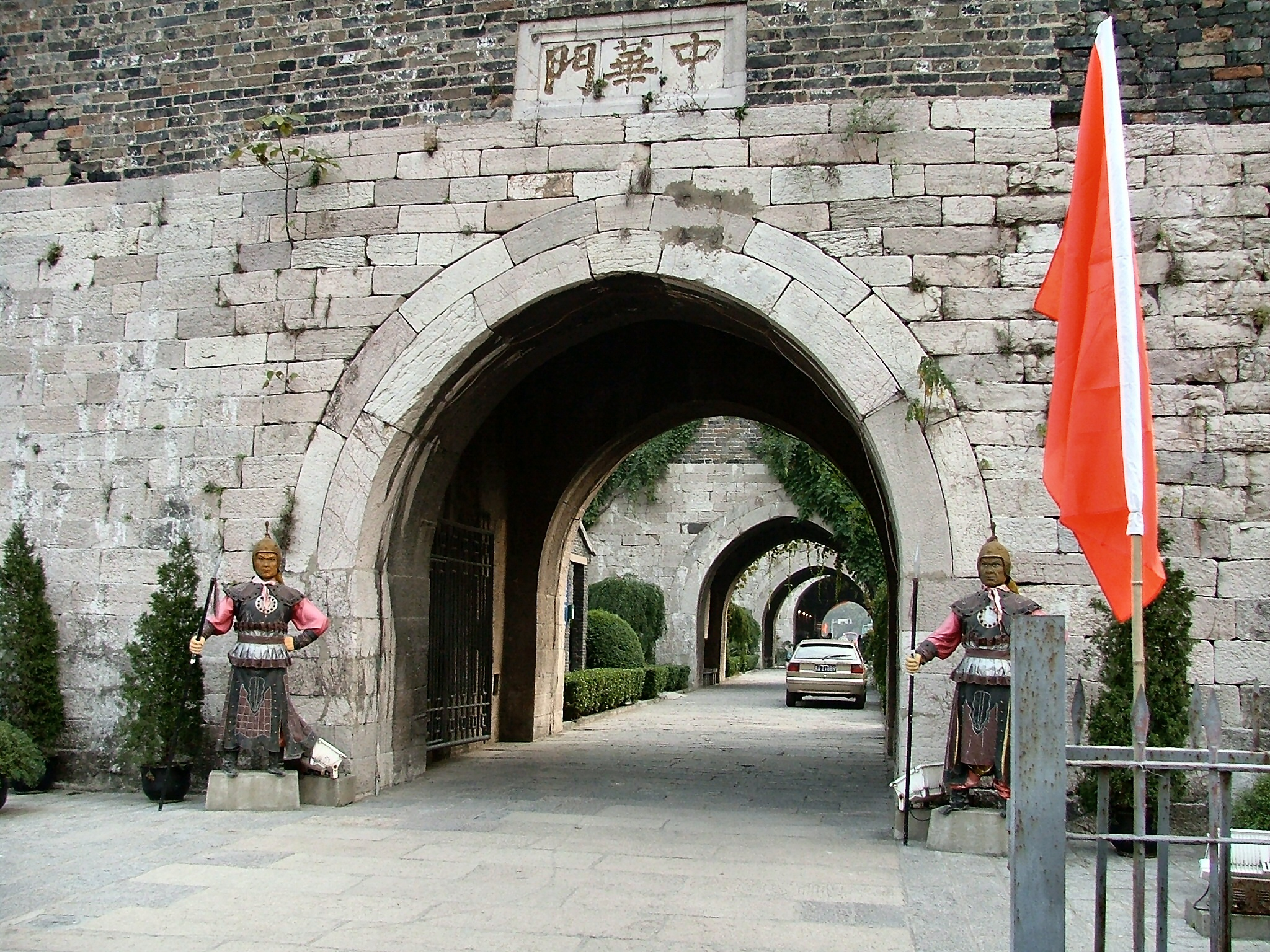 Author: Kanga35 - Photo taken 28 sept 2004